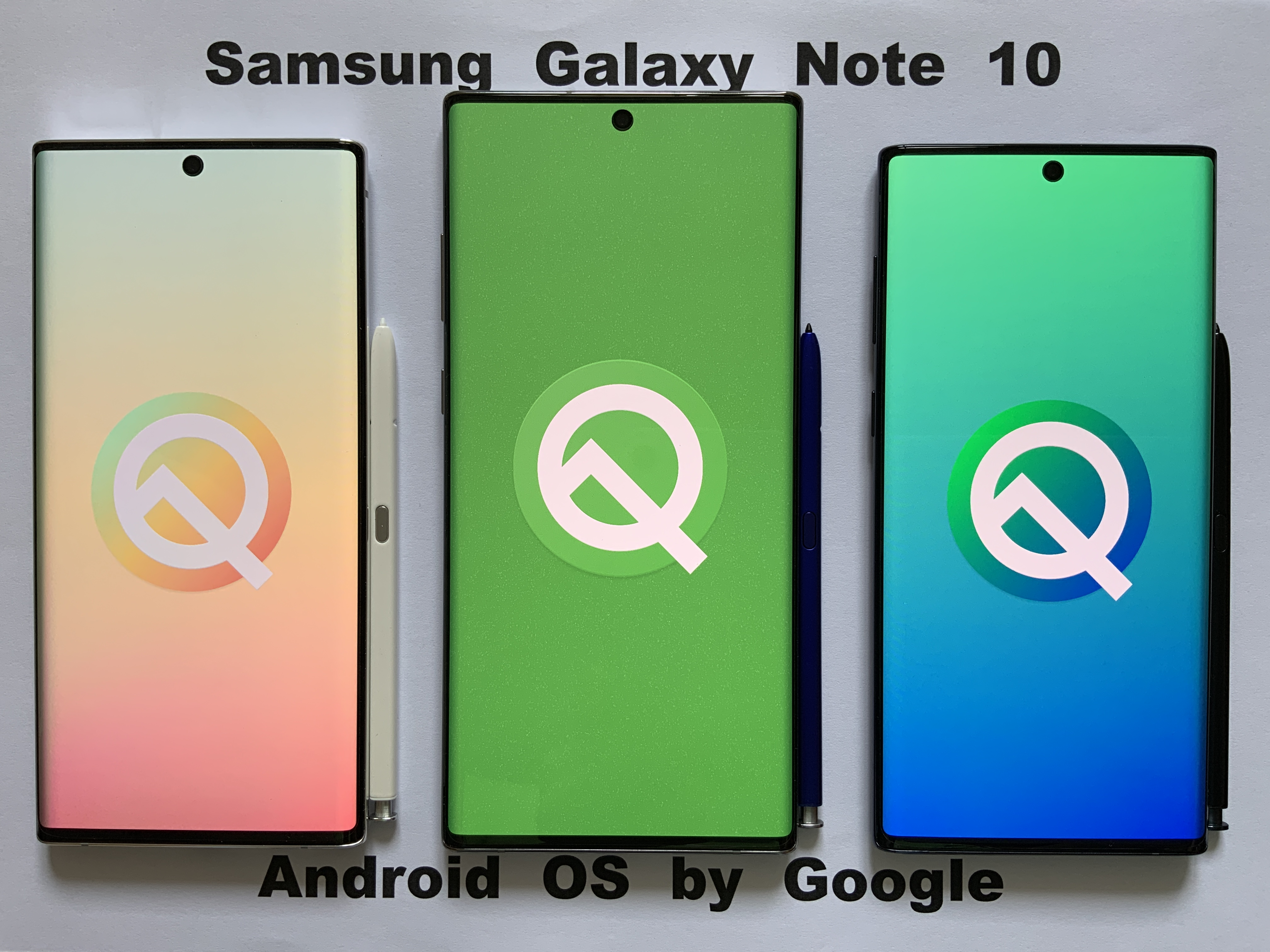 SAMSUNG Galaxy Note10 SAMSUNG Galaxy Note10 5G SAMSUNG Galaxy Note10+ SAMSUNG Galaxy Note10+ 5G